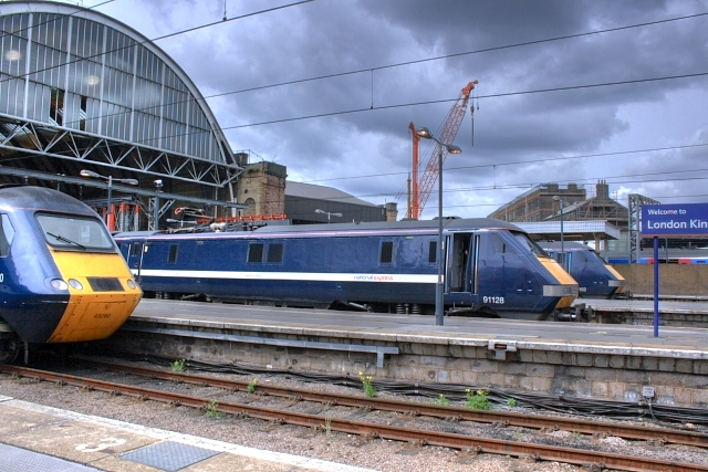 Kings Cross Station